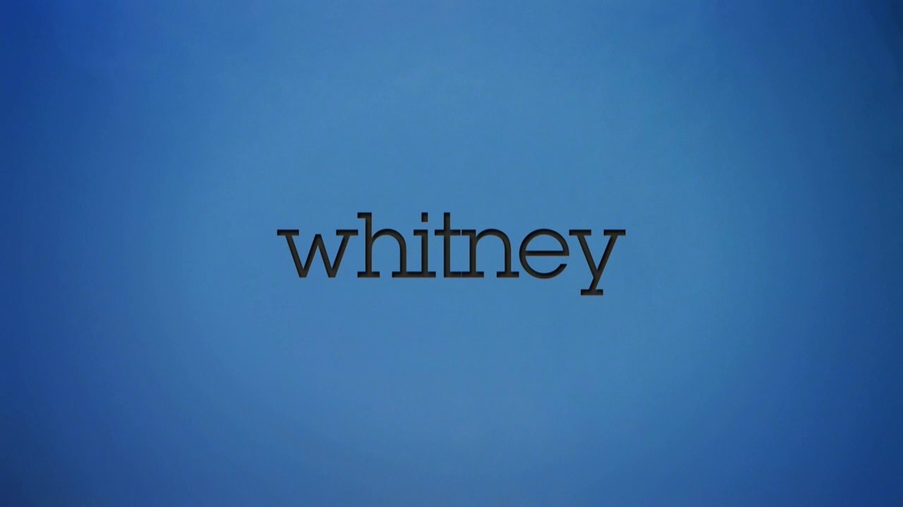 The intro logo of American sitcom Whitney.